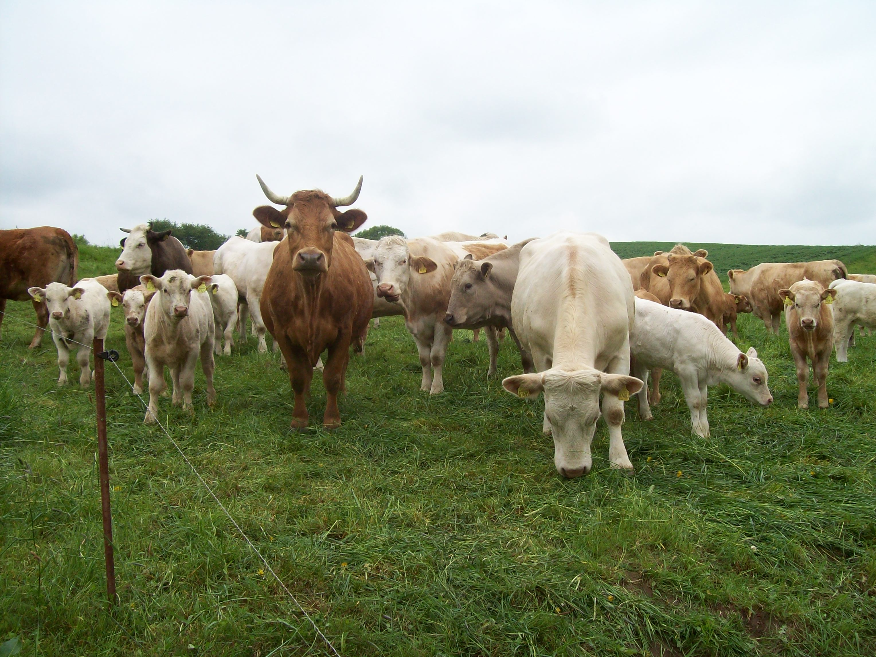 Cattle